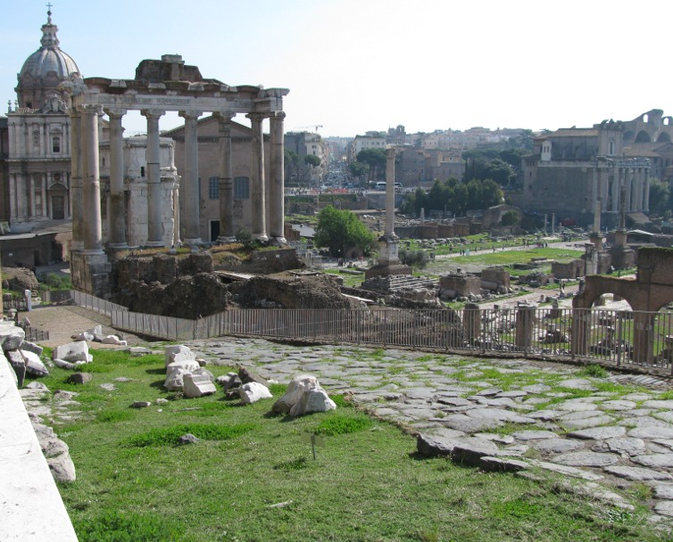 Clivus Capitolinus climbing up the slope of the Capitoline Hill